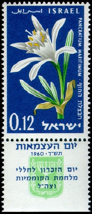 Twelfth Independence Day stamp - 0.12 Israeli lira - Pancreatium Maritimum. Inscription on tab: "The Twelfth Independence Day", "Memorial Day for the Fighters for Independence"